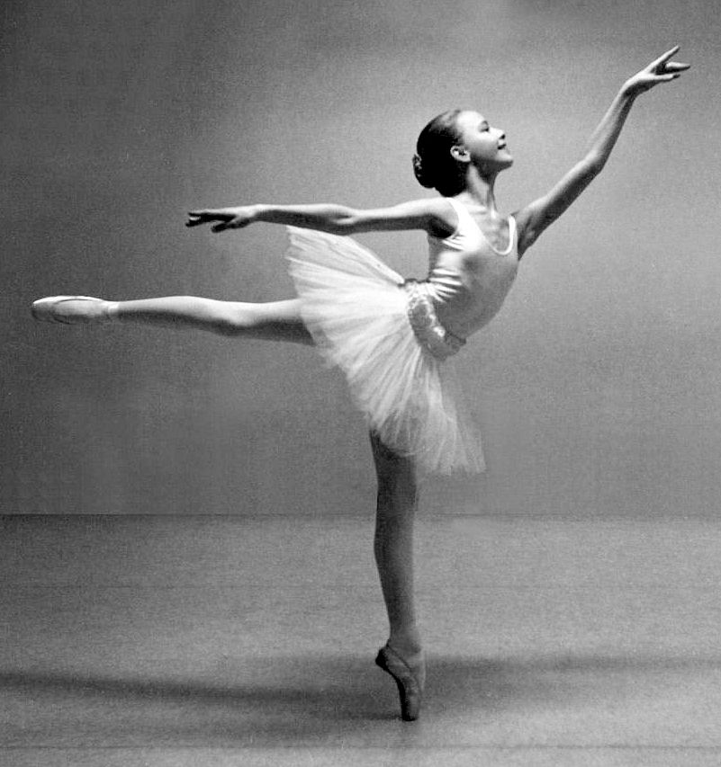 Photo of the authors daughter Silje in arabesque pose